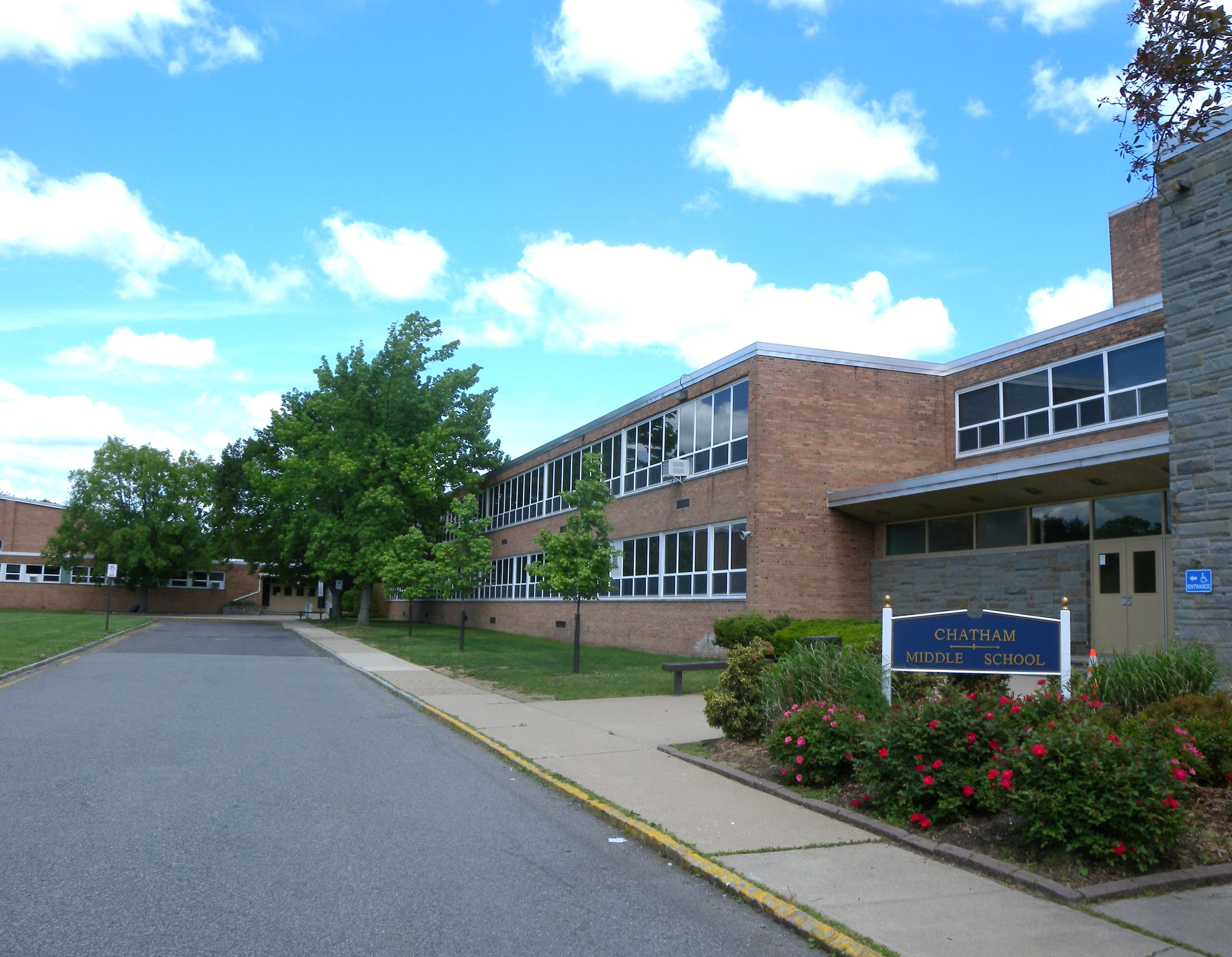 Looking north at Chatham Middle School on a mostly sunny midday.